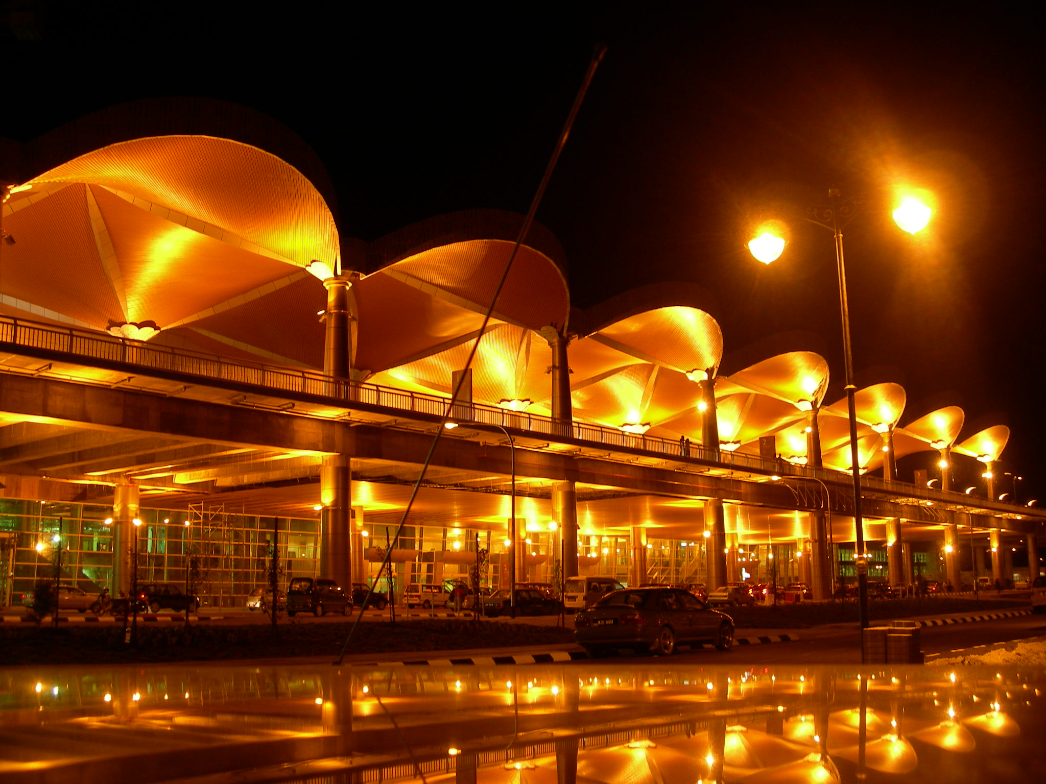 The newly-renovated Kuching International Airport at night. Reflection due to car roof used as a way to keep the camera steady. By Matthew A. Lockhart